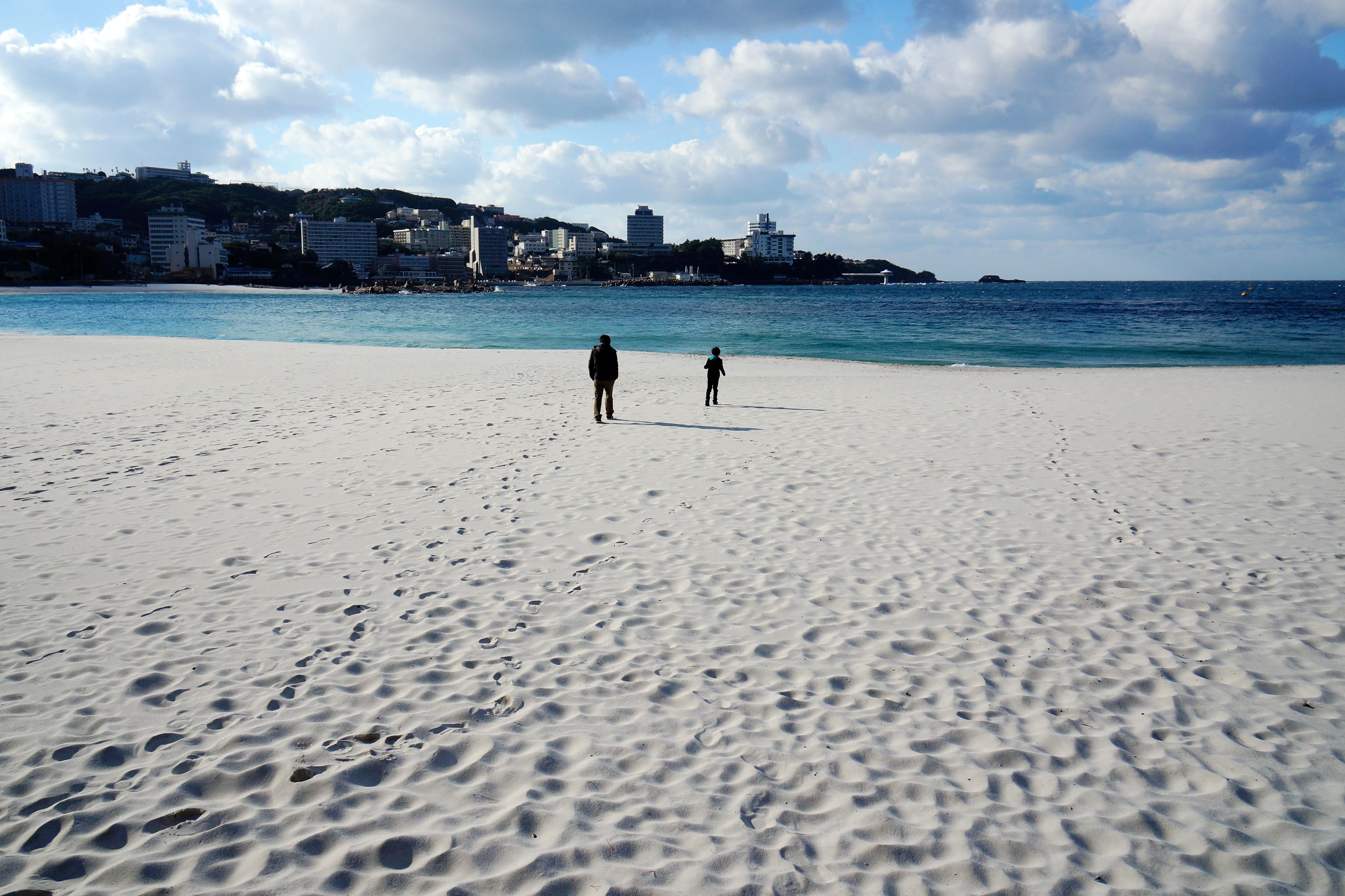 Shirarahama Beach in Shirahama, Wakayama prefecture, Japan.